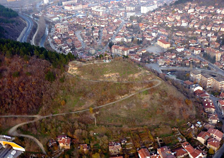 This photo is provided by the Historical Museum in Dupnitsa and is included in the album "Dupnitsa through the centuries" („Дупница през вековете“). Dupnitsa Municipality, Historical Museum - Dupnitsa. ISBN 978-954-8187-89-3.